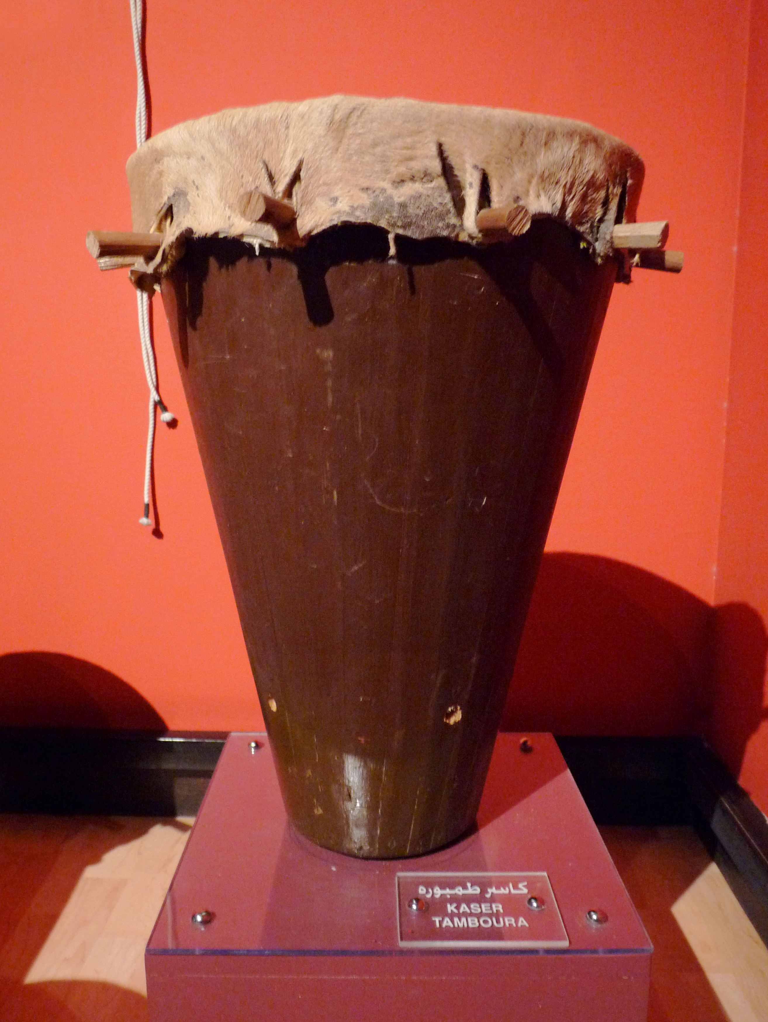 Bait Al Baranda Museum in Muscat (Oman). Kaser tamboura